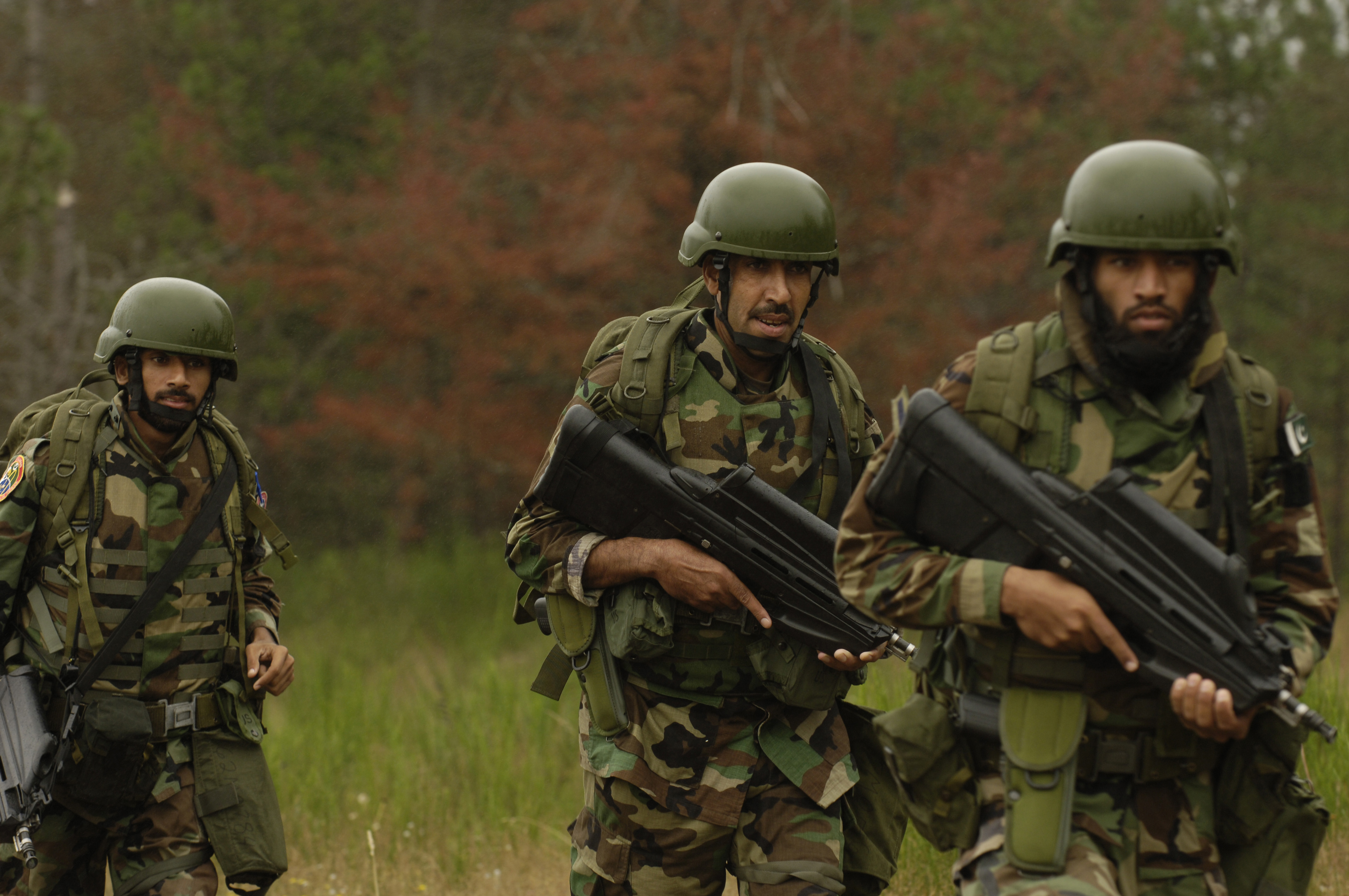 The team from the Pakistani air force makes their way to the first sector of the security forces combat arms event course during Air Mobility Command's Rodeo 2007 at Fort Lewis, Wash., July 23, 2007. The course tested competitors on their small arms firing, low crawling and running with more than 50 pounds of combat gear. Rodeo 2007 is a readiness competition of U.S. and international mobility air forces and focuses on improving warfighting capabilities.